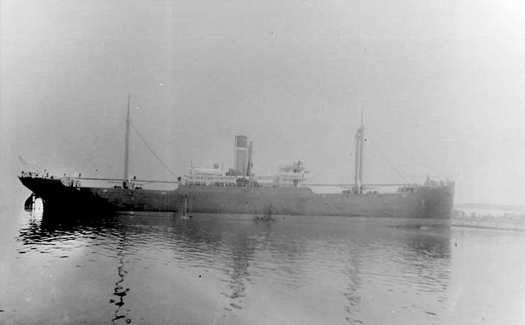 Commercial collier SS Munsomo, probably around the time of her completion in 1916. She later served in the US Navy as cargo ship USS Munsomo (ID-1607).